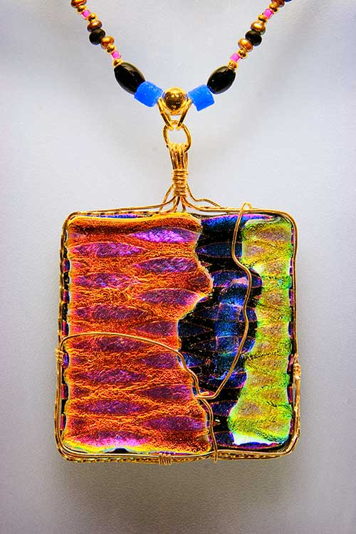 Taken from Dichroic Glass designed by Milton Jacabson Jewelry designed by fabricated Nina Devo